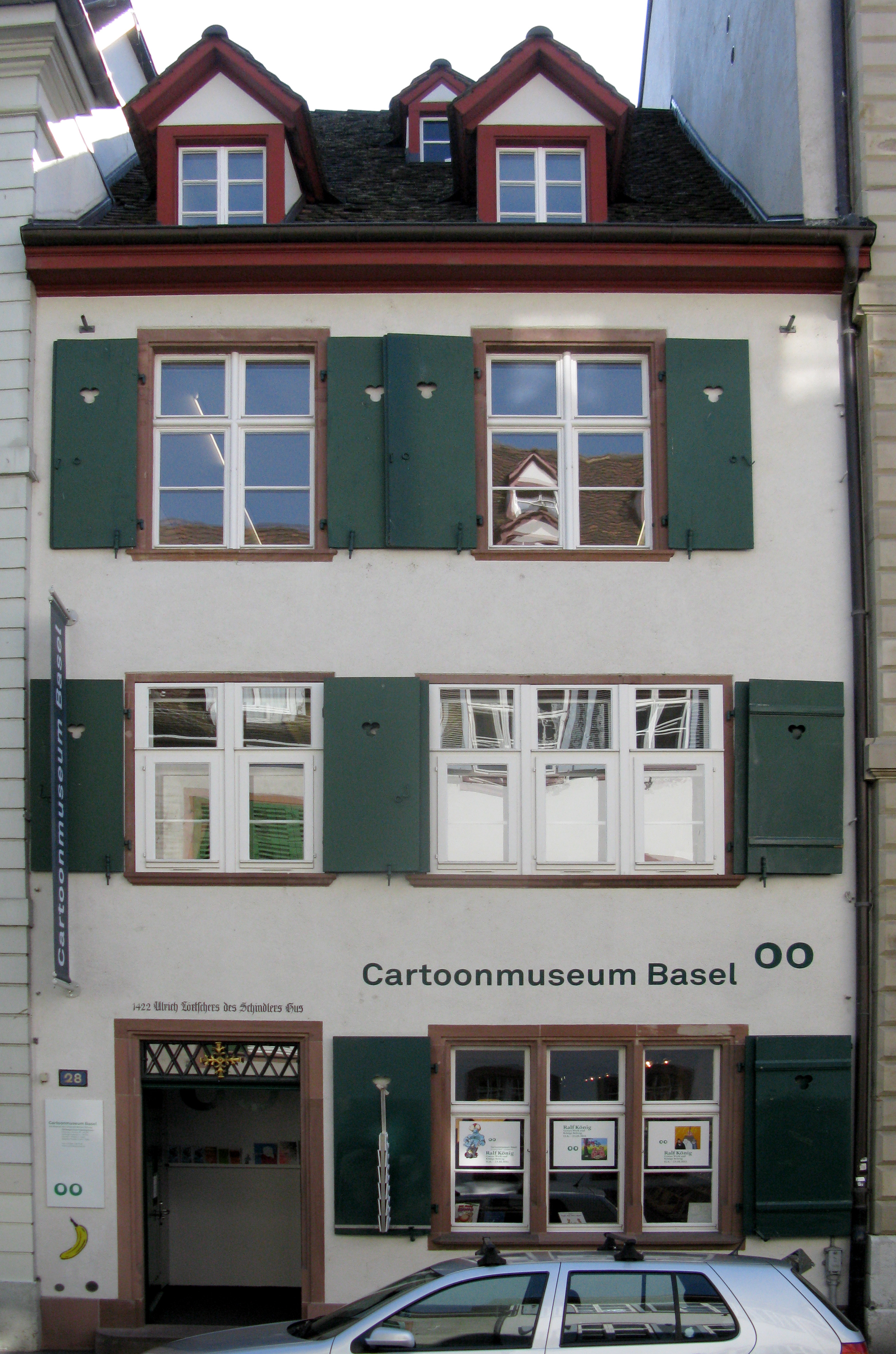 Cartoonmuseum